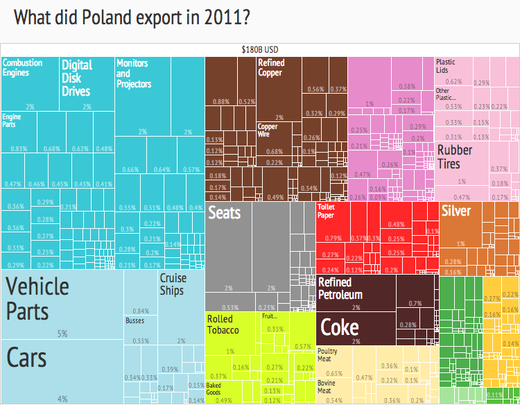 Poland Export Treemap from MIT Harvard Atlas of Economic Complexity